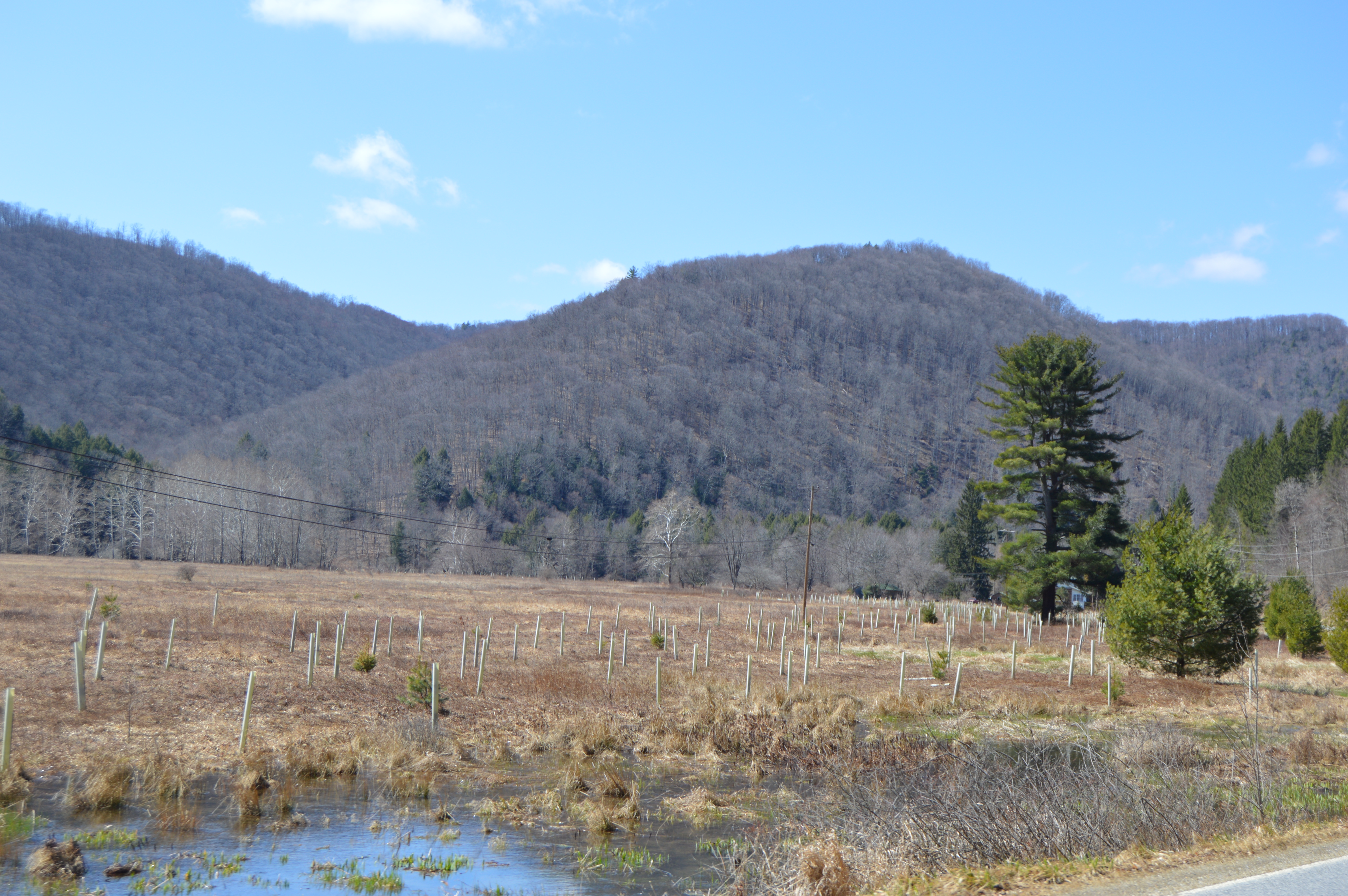 Hills and fields in rural southwestern Potter County, Pennsylvania, United States. Photo looks west from Pennsylvania Route 872 southeast of Austin in Sylvania Township.